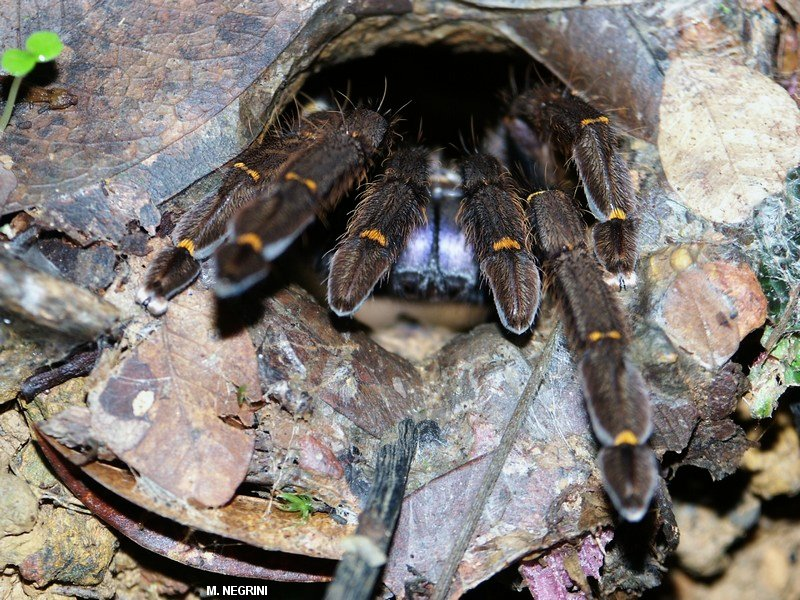 Ephebopus cyanognathus West & Marshall, 2000 female, French Guiana